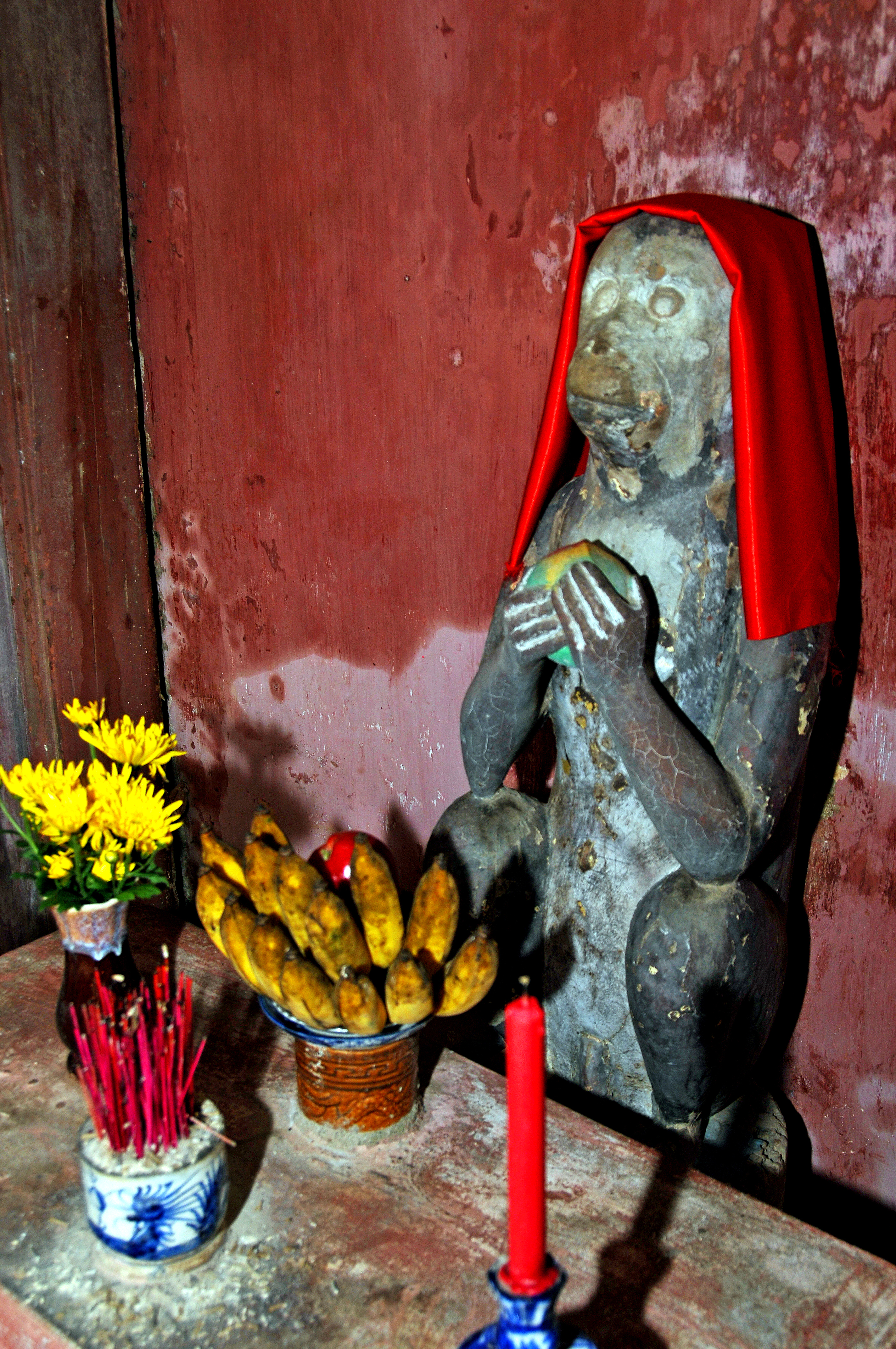 PLEASE, no multi invitations (none is better) in your comments. Thanks. On the right and left side of the entrance of the bridge are monkey statues (shrines). Hoi An, Vietnam.